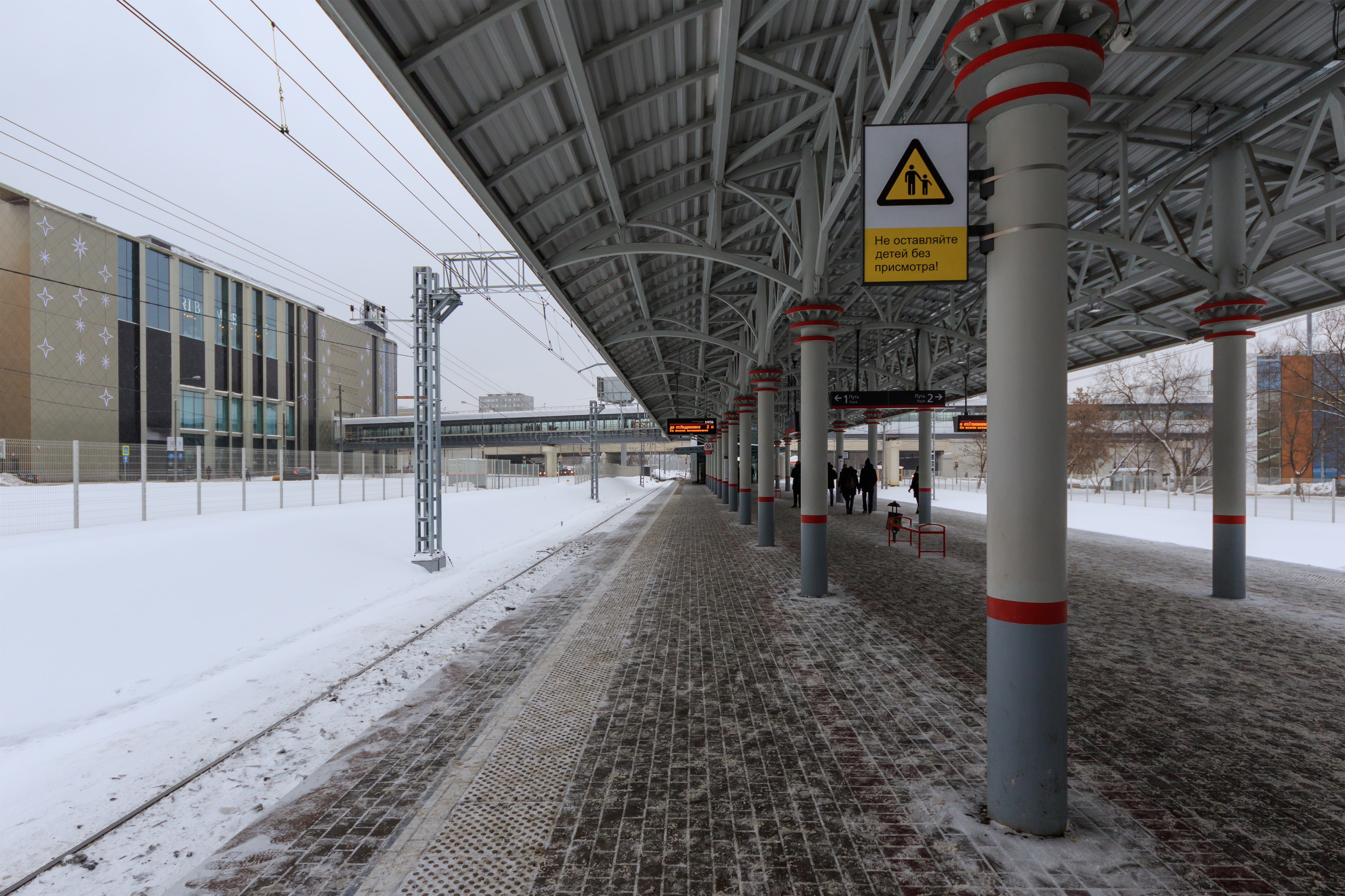 Baltiyskaya MCC station in Moscow, Russia